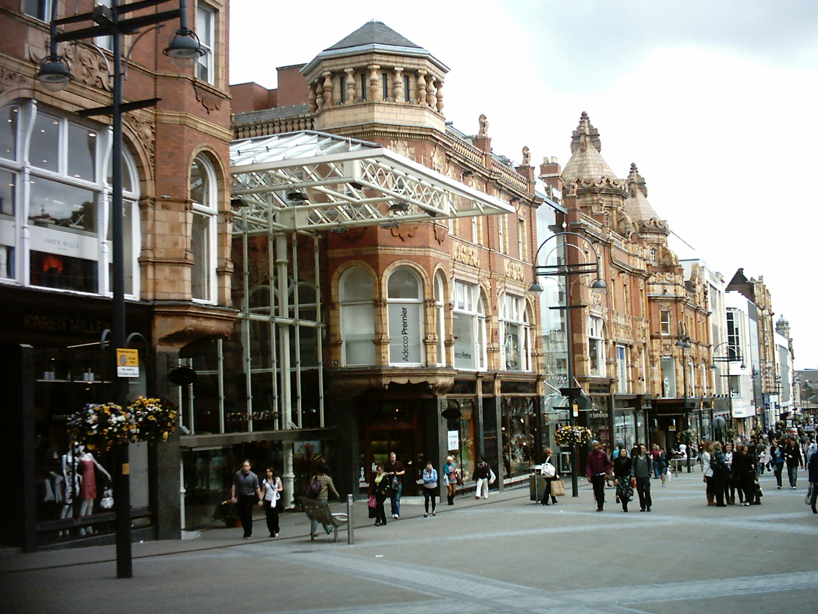 Victoria Quarter from Briggate, Leeds, West Yorkshire, UK. This image was taken during the early evening of the 2nd May 2009.